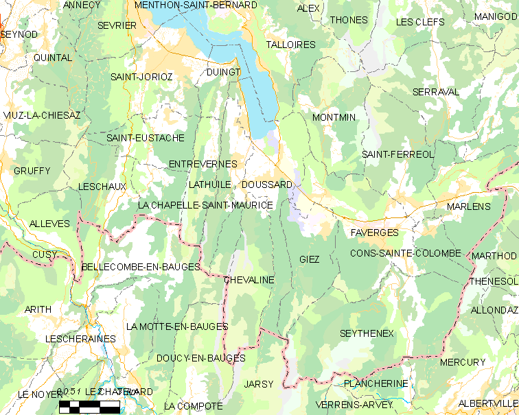 Map of French municipality Doussard